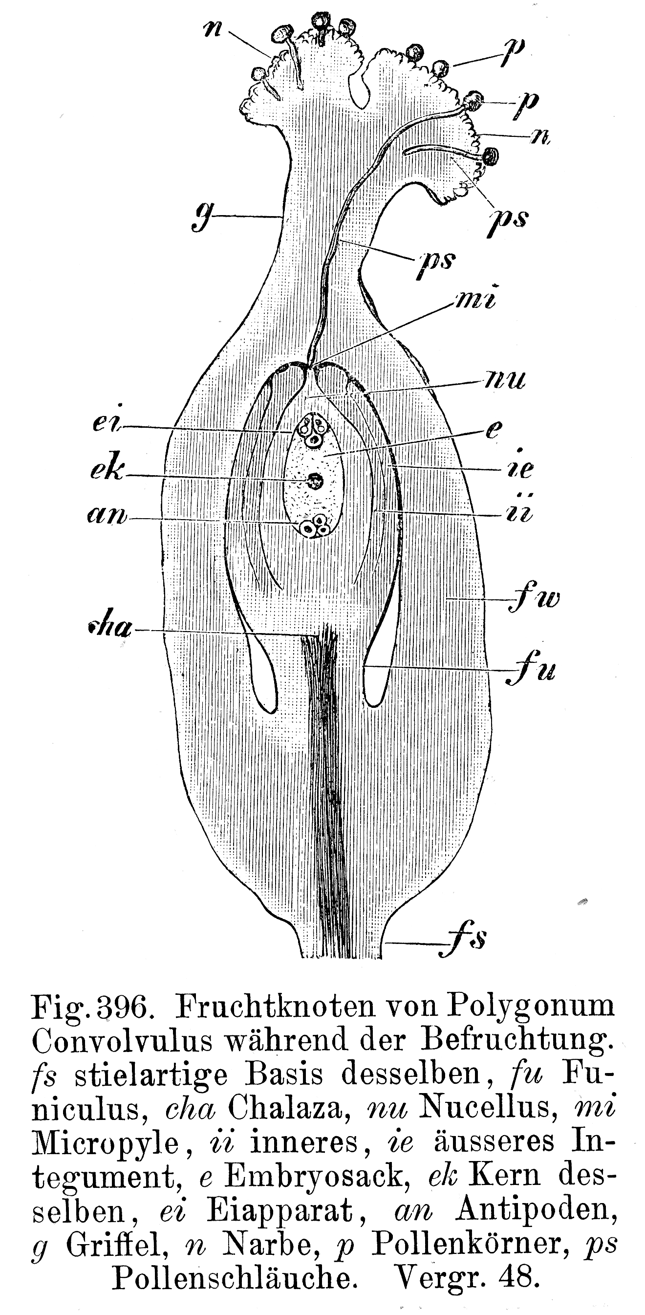 Fruchtknoten/Ovary Polygonum